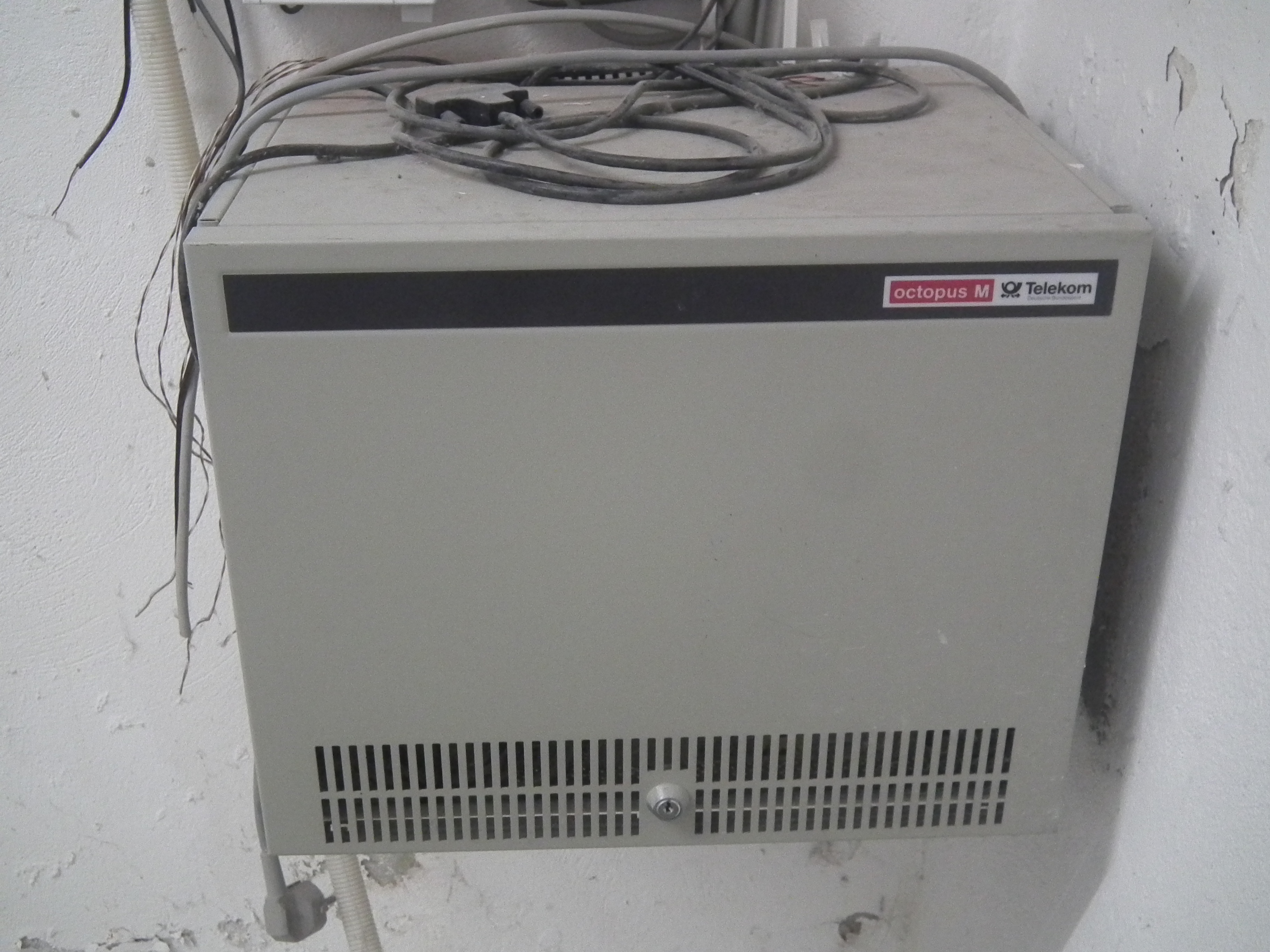 octopus M Telekom